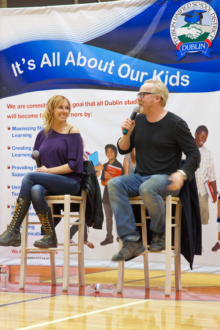 MythBusters stars Adam Savage and Kari Byron participate in a moderated panel session at Dublin High School's Engineering and Design Academy Open House on February 22, 2012. Dublin High School is a comprehensive 9-12 high school in Dublin, California.